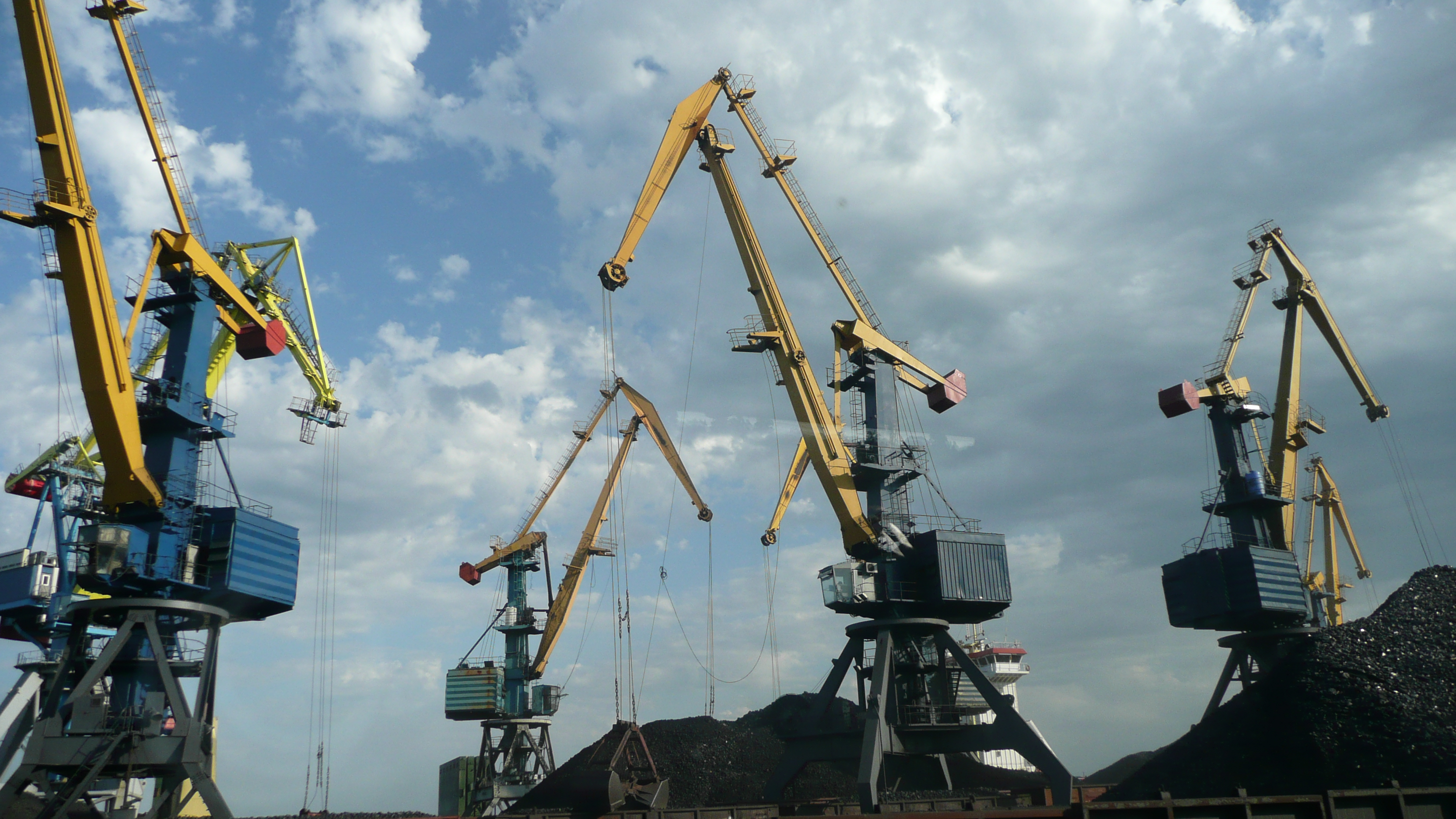 Port of Mariupol